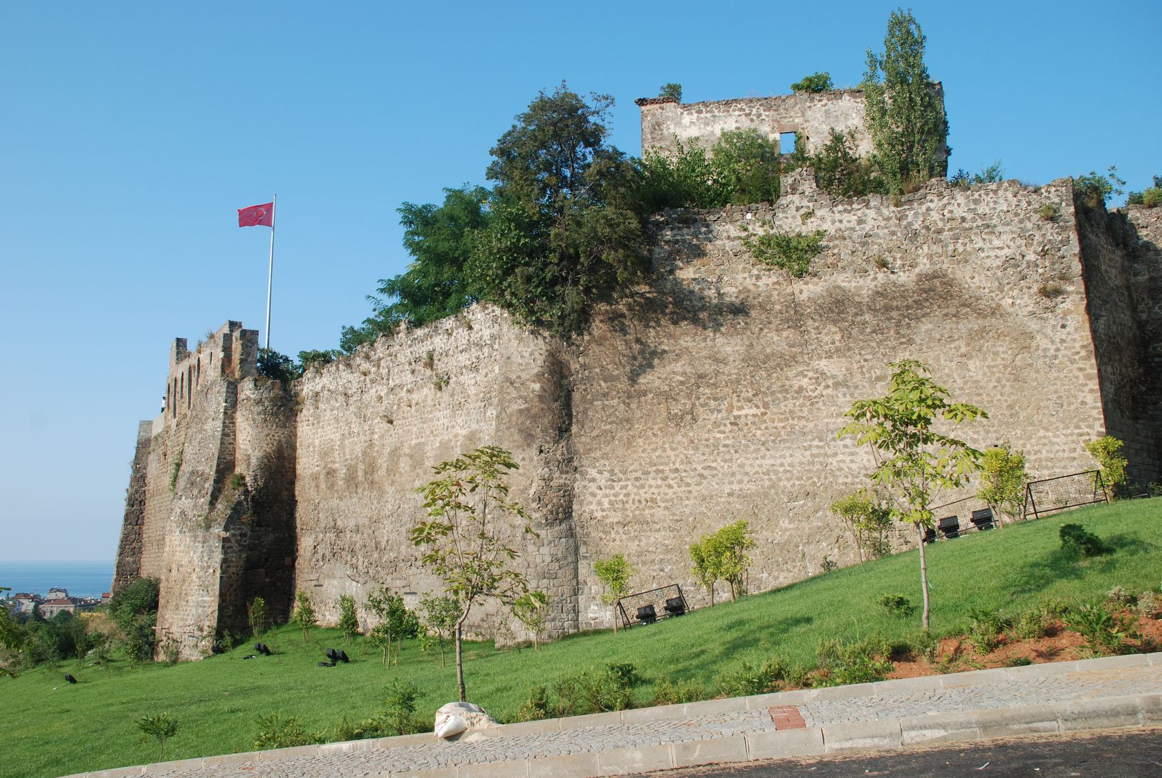 Trabzon, citadel west wall